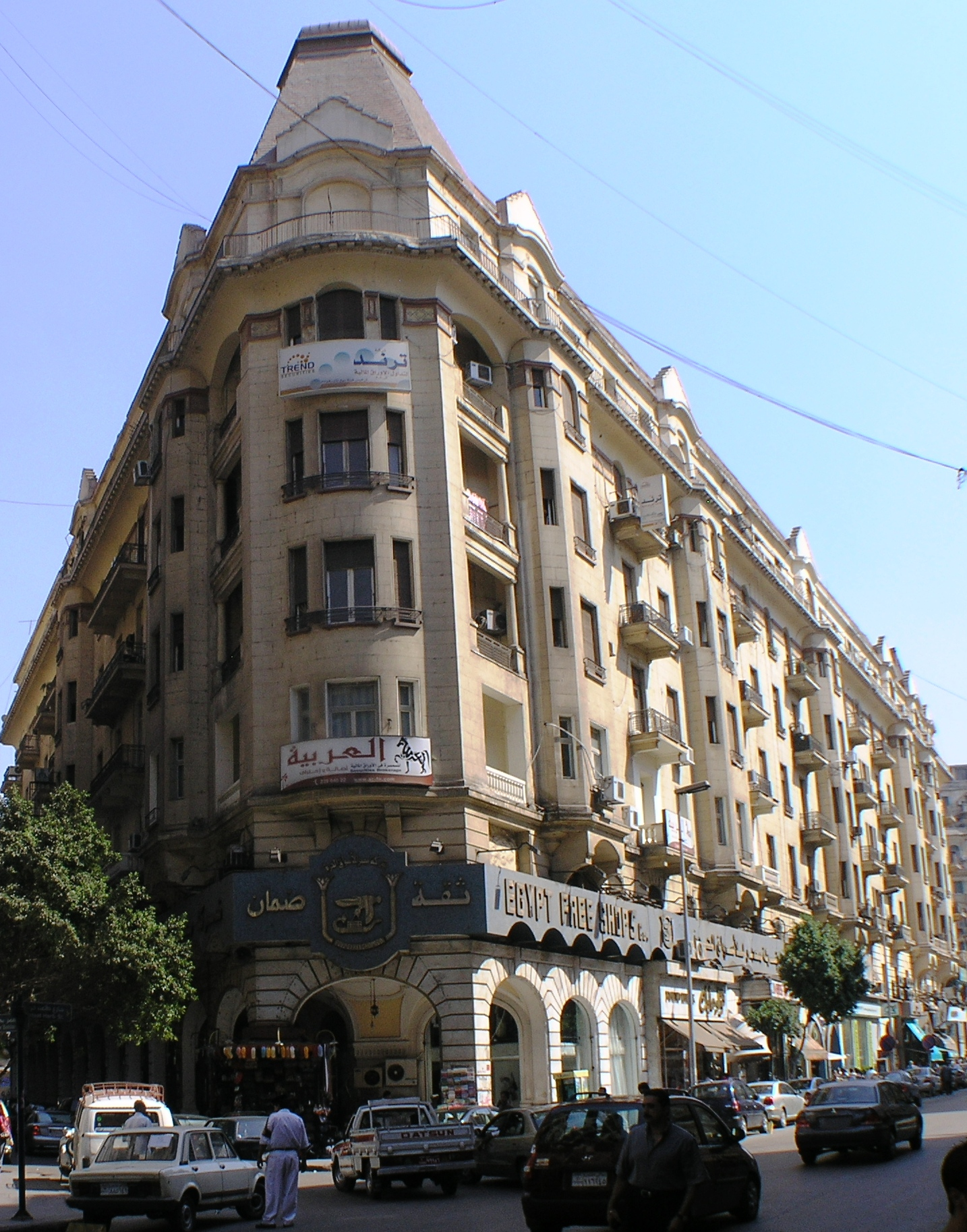 Cairo - Downtown - Talaat Harb St - Egypt Free Shops